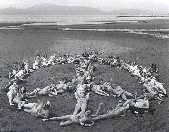 Bathers on Wreck Beach in the form of the peace symbol. Vancouver, British Columbia, Canada.